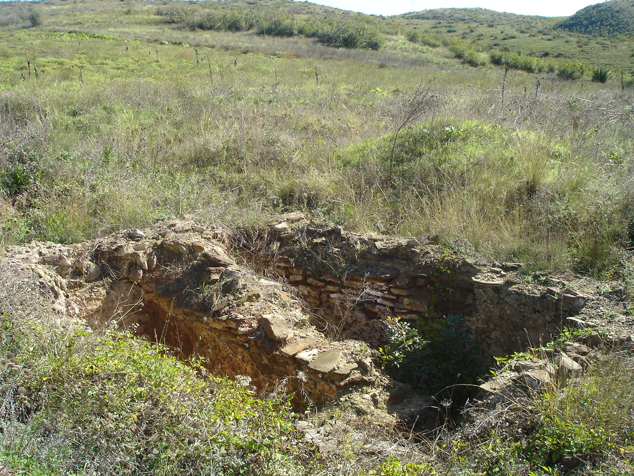 Early christian tombs in Čaška, Macedonia